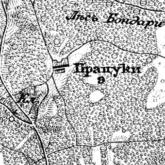 Pratsiuky on the map "Военно-топографическая карта Российской Империи" (known as "Schubert's map"), XX 5, 1866-1887 (issued in 1913).